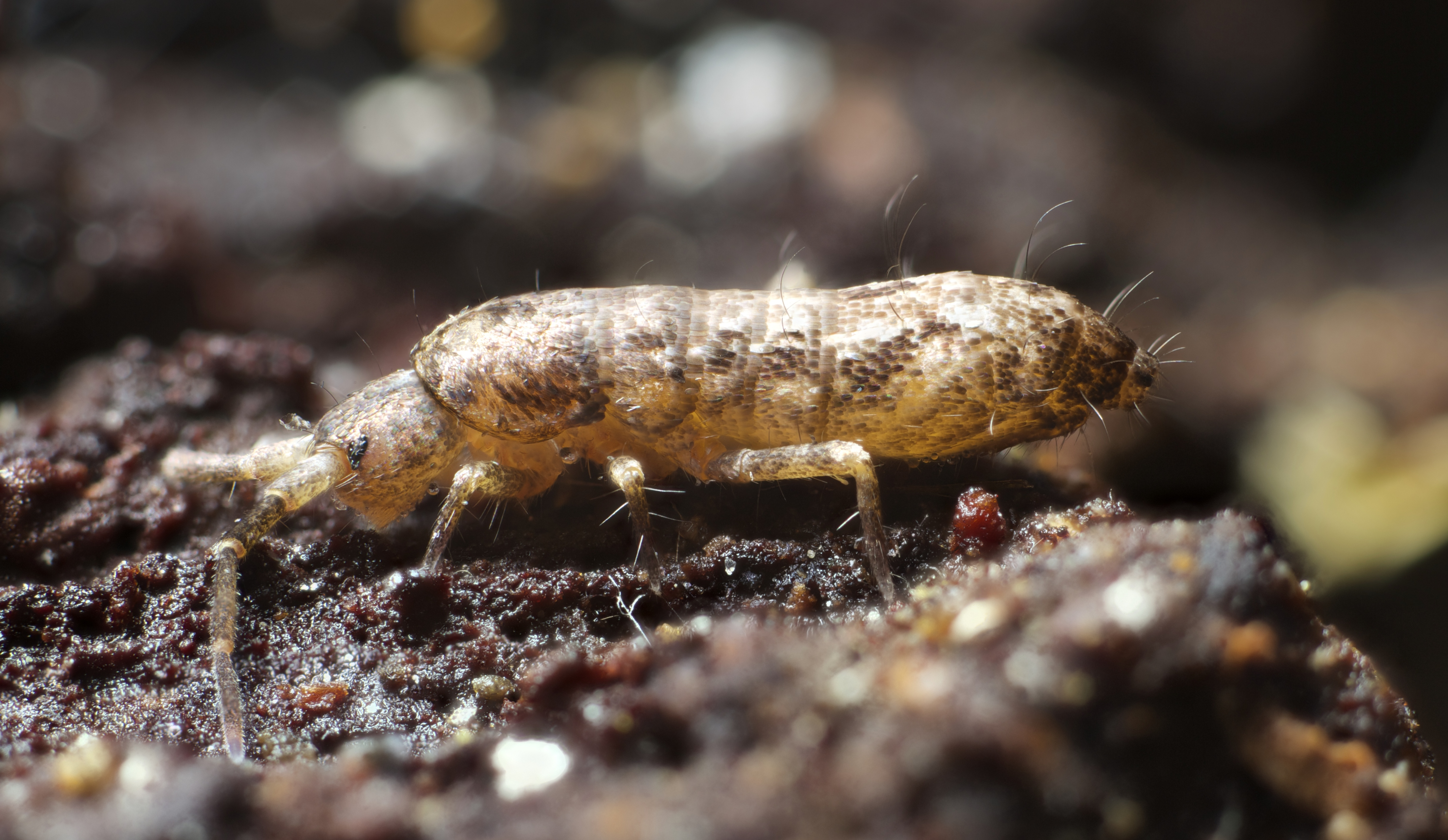 Original description on Flickr: A big chunky springtail from near Montagu, NE Tasmania